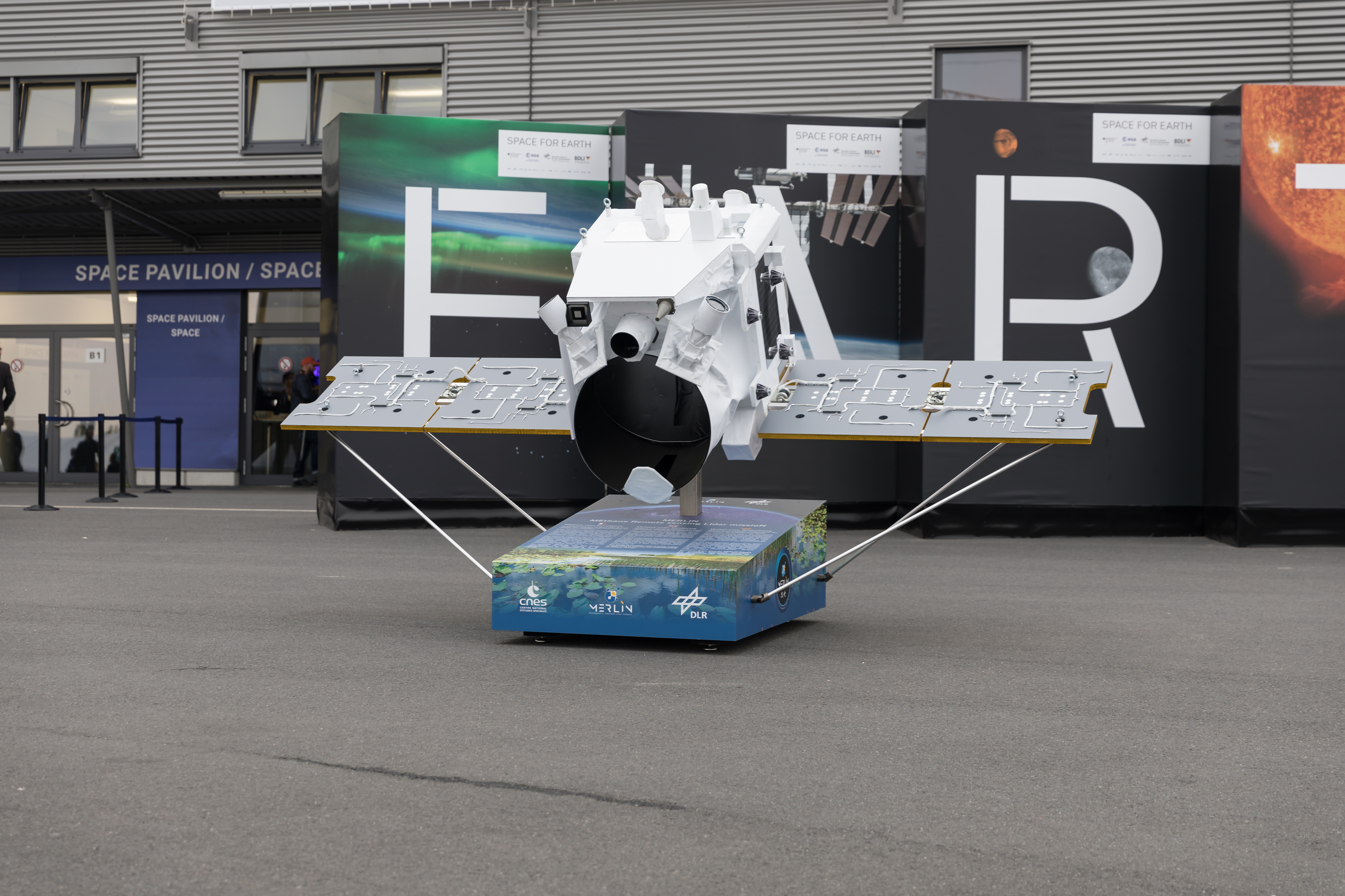 ILA 2018